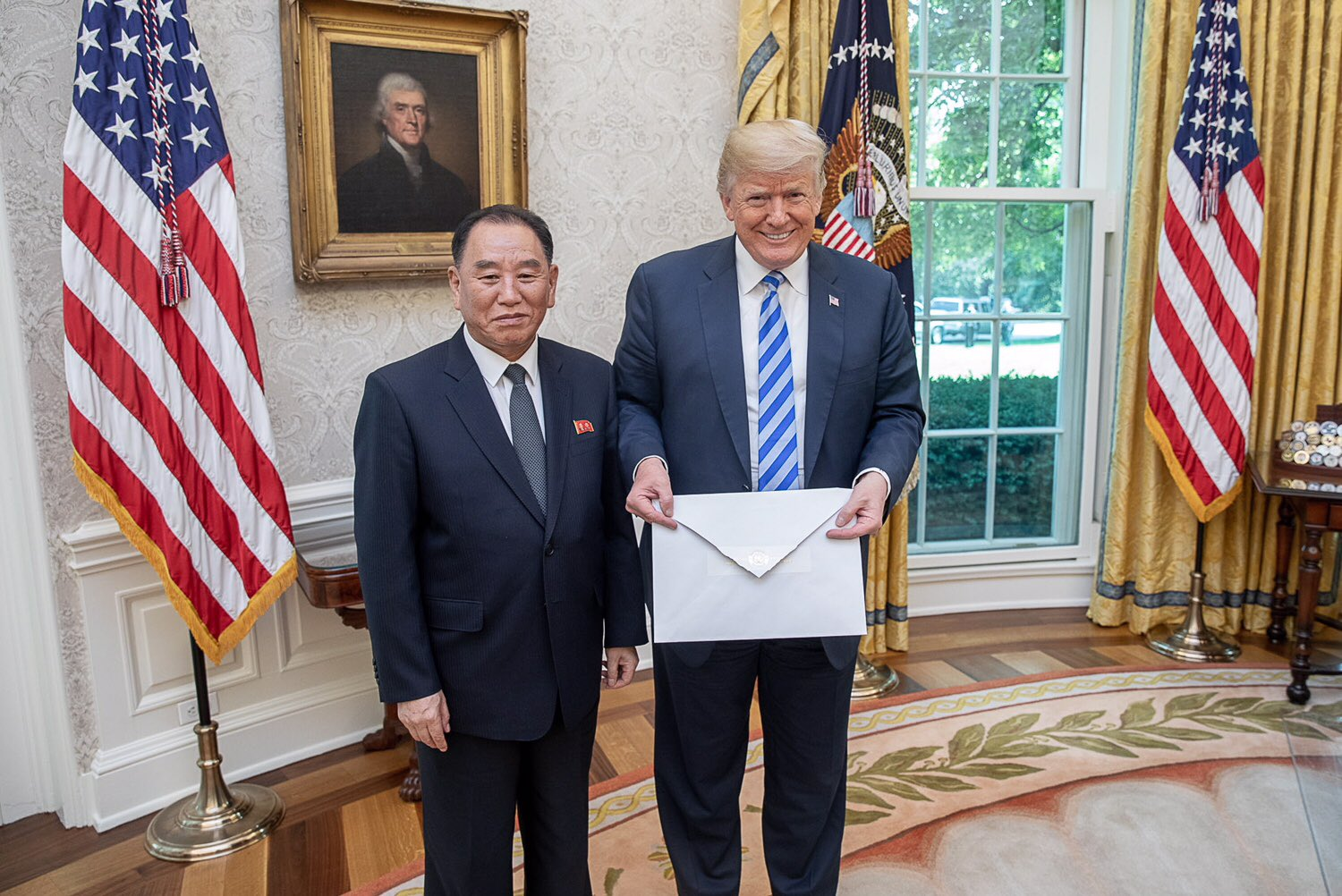 The Letter from DPRK (North Korea), June 1, 2018